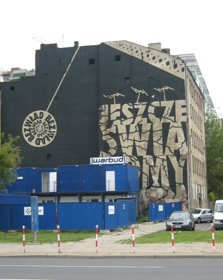 Mural in Warsaw.